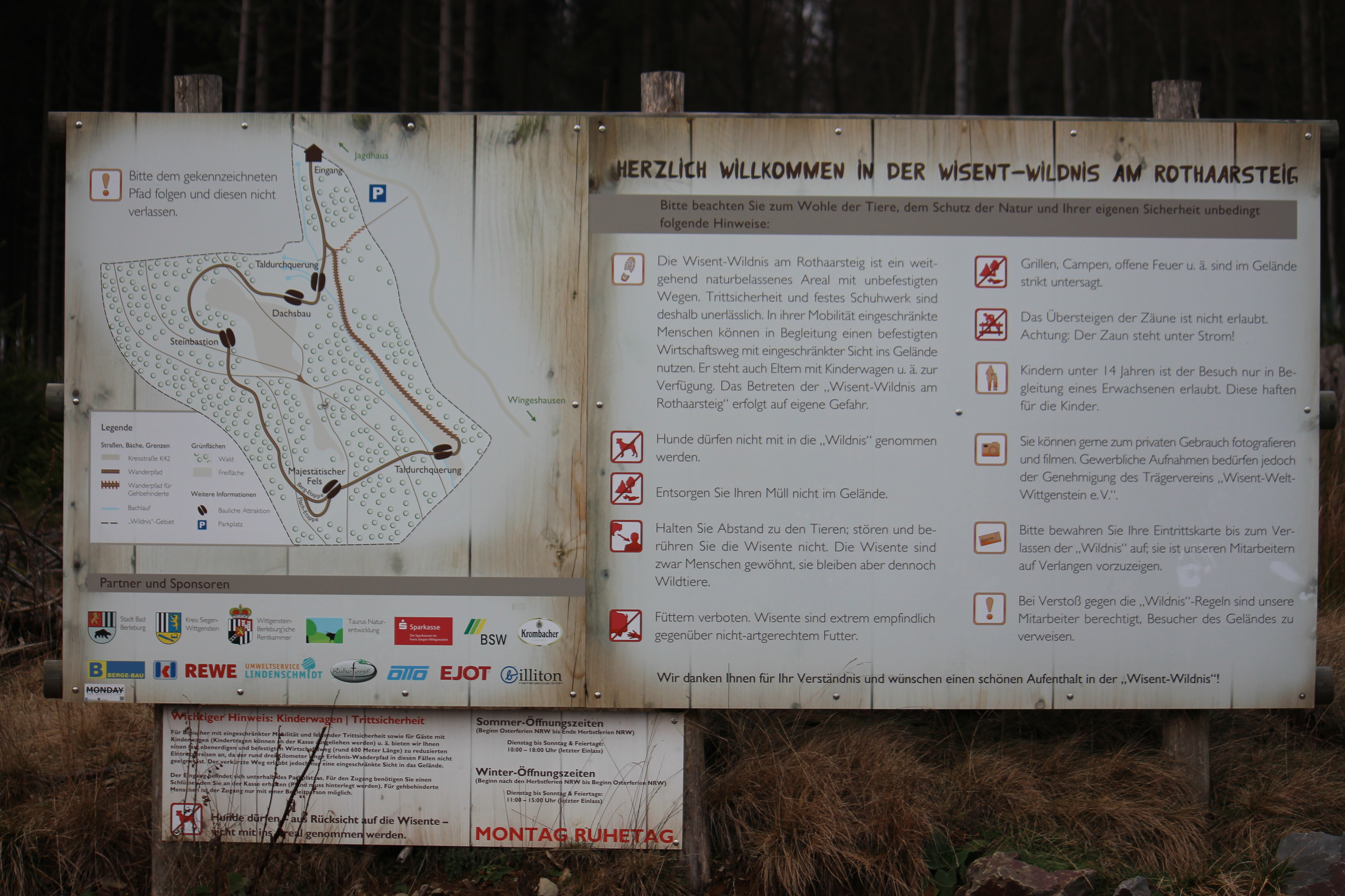 Wisent-Wildnis am Rothaarsteig: Map of the area close to the parking places.